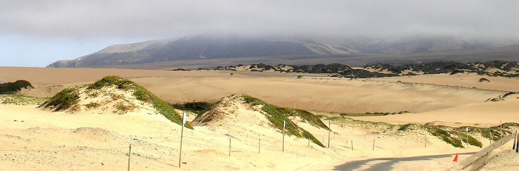 The Guadalupe-Nipomo Dunes — view east at the western end of California State Route 166 in Santa Barbara County, central California. The Guadalupe-Nipomo dunes have been designated a National Natural Landmark of the United States, and are located in northern Santa Barbara and southern San Luis Obispo Counties.